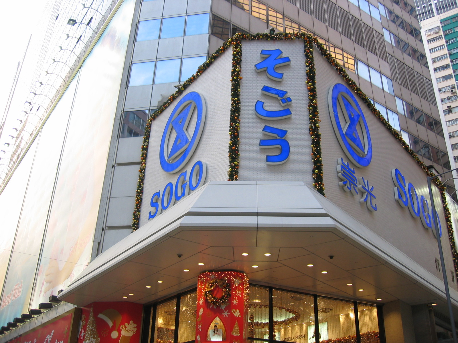 Causway Bay Sogo Hong Kong